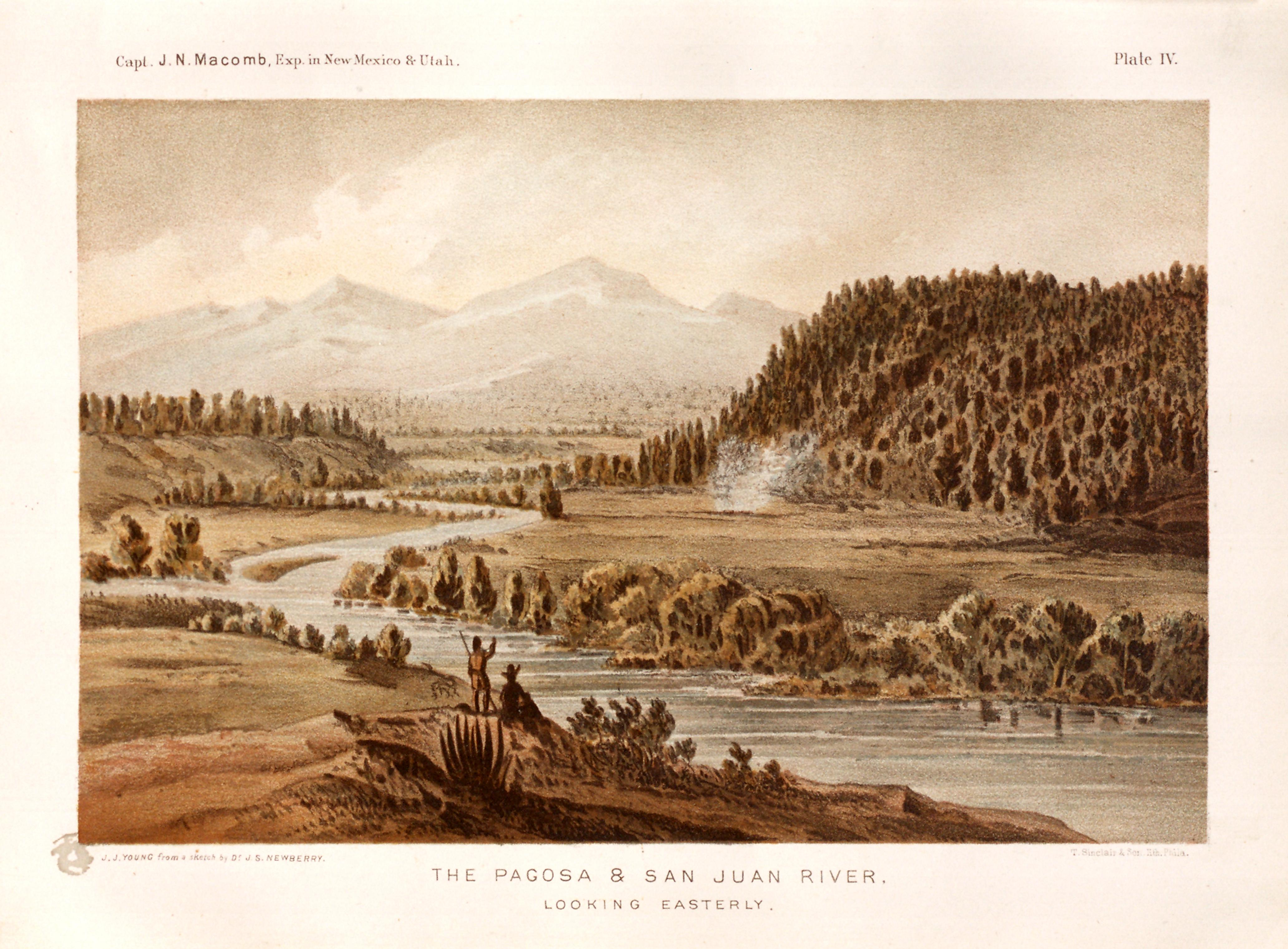 Report of the exploring expedition from Santa Fé, New Mexico, to the junction of the Grand and Green Rivers of the great Colorado of the West in 1859